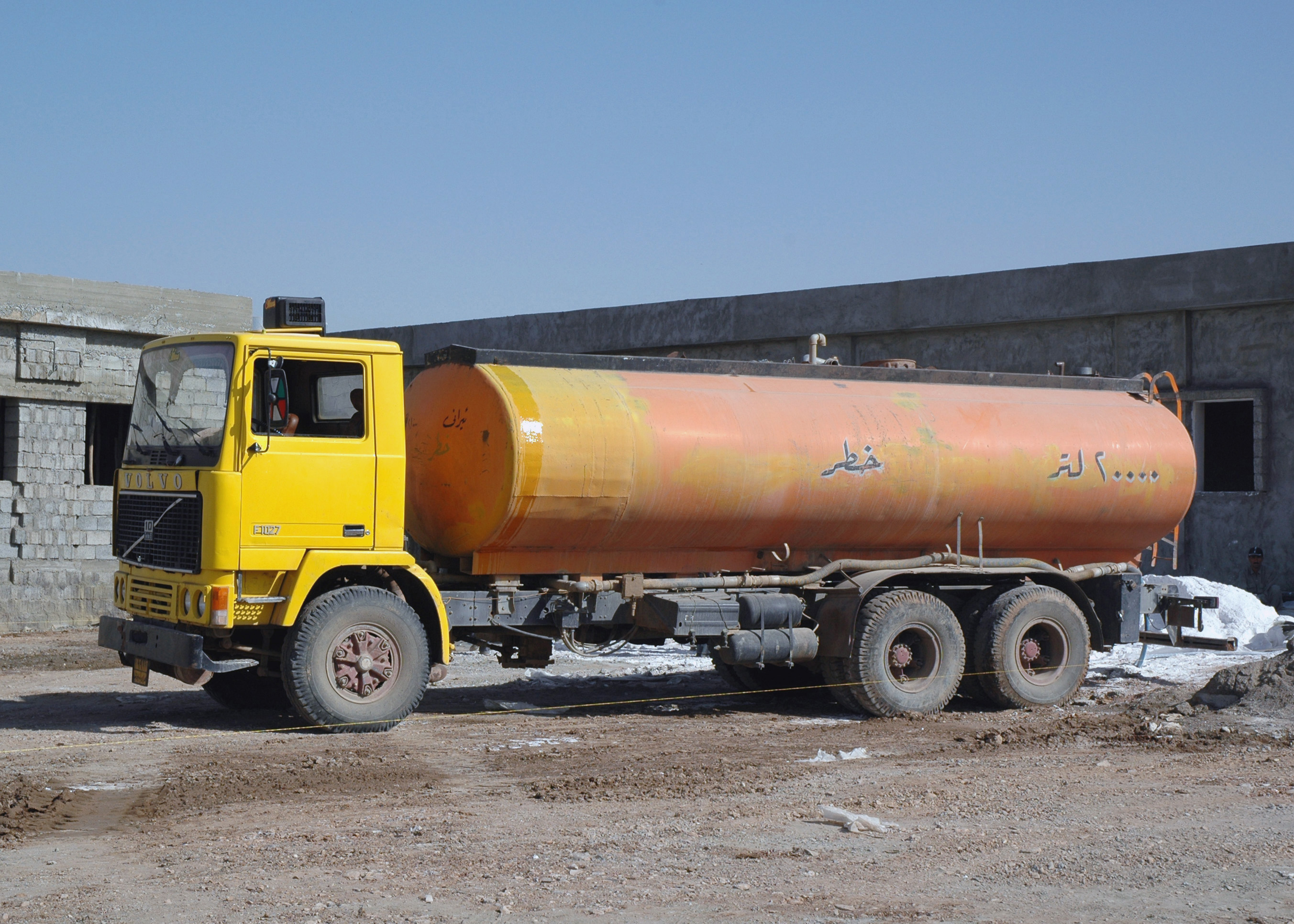 A Volvo water tank truck used by Iraqi subcontractors at the new construction site for the Students' Barracks for the Iraqi Department of Border Enforcement (DBE) Academy, located in Sulaymaniyah, Iraq.